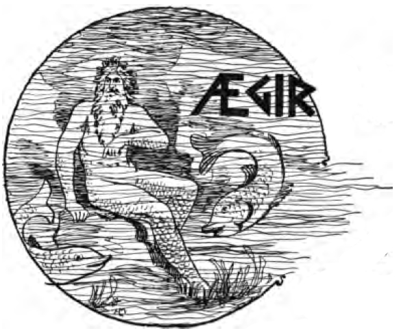 No caption, but the illustration is put beside a head title which reads "Ægir's Feast", indicating that the illustration depicts Ægir.